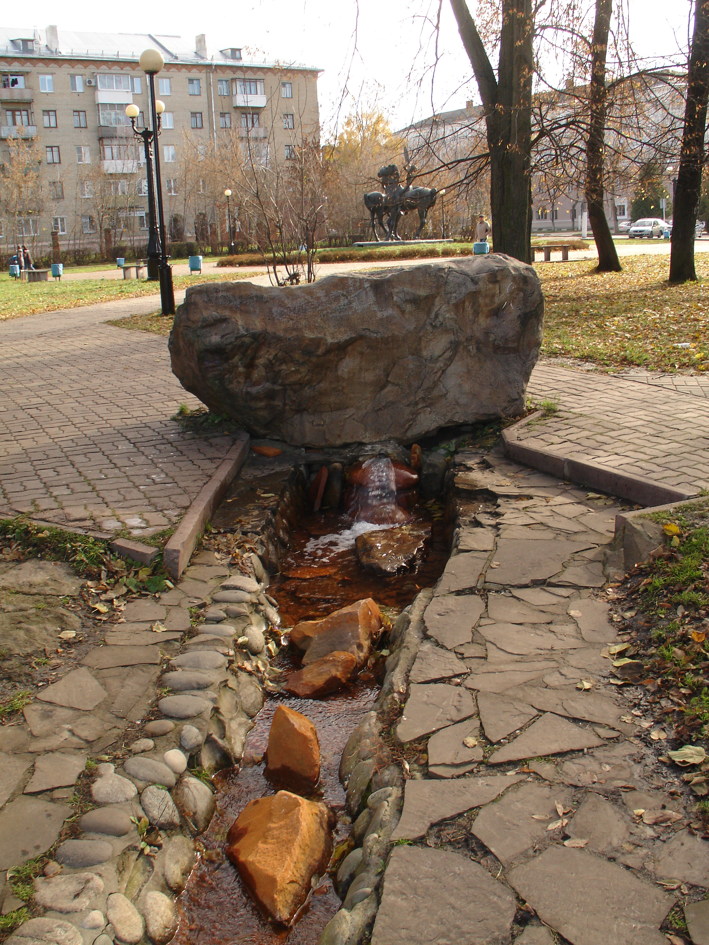 Don river head. Novomoskovsk, Tula oblast, Russia. October'2013.